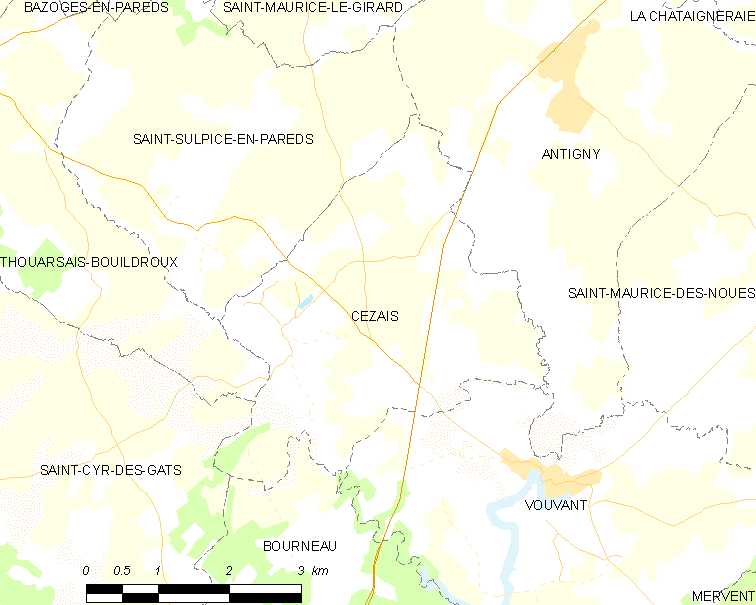 Map of French municipality Cezais